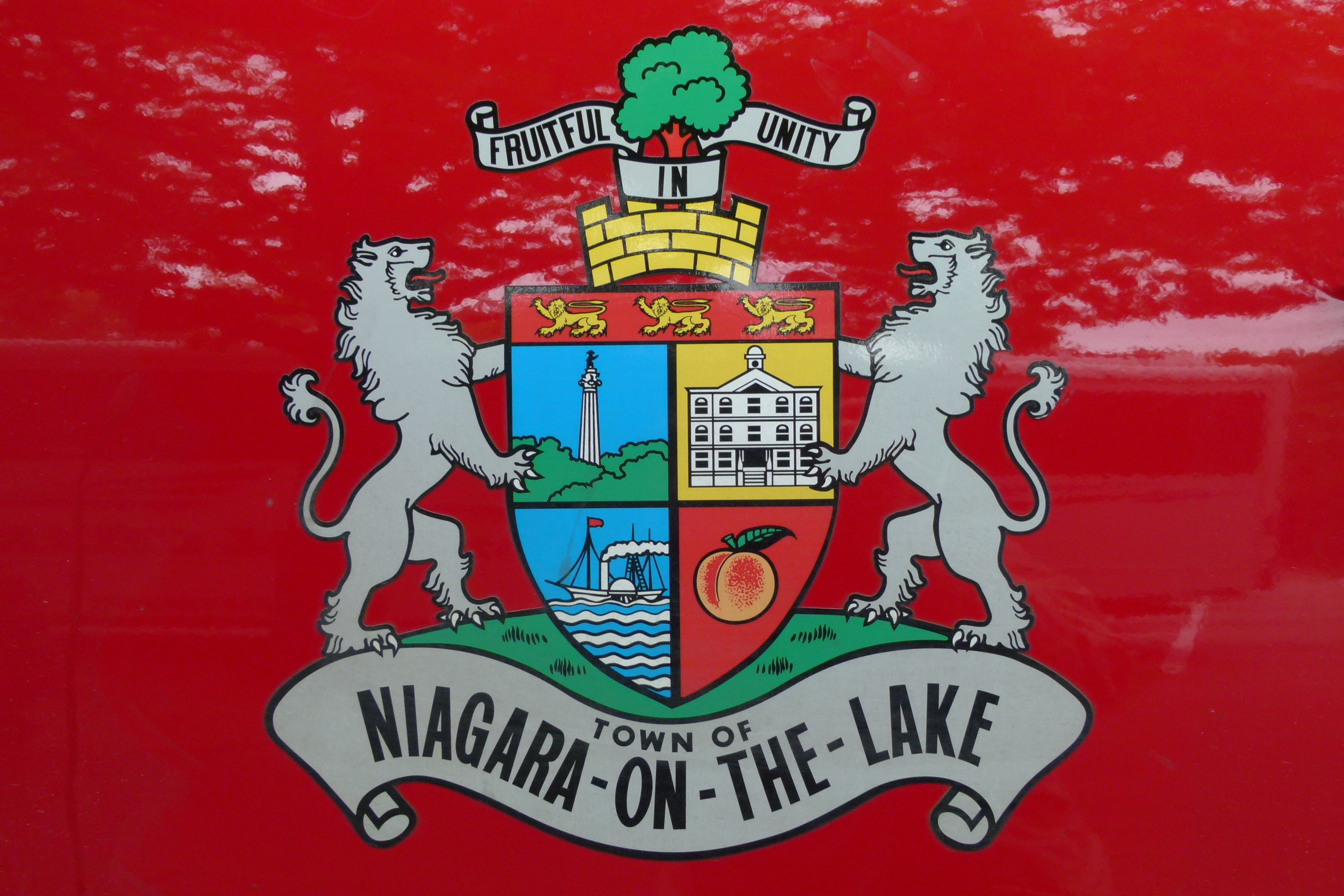 Niagara-on-the-Lake, coat of arms